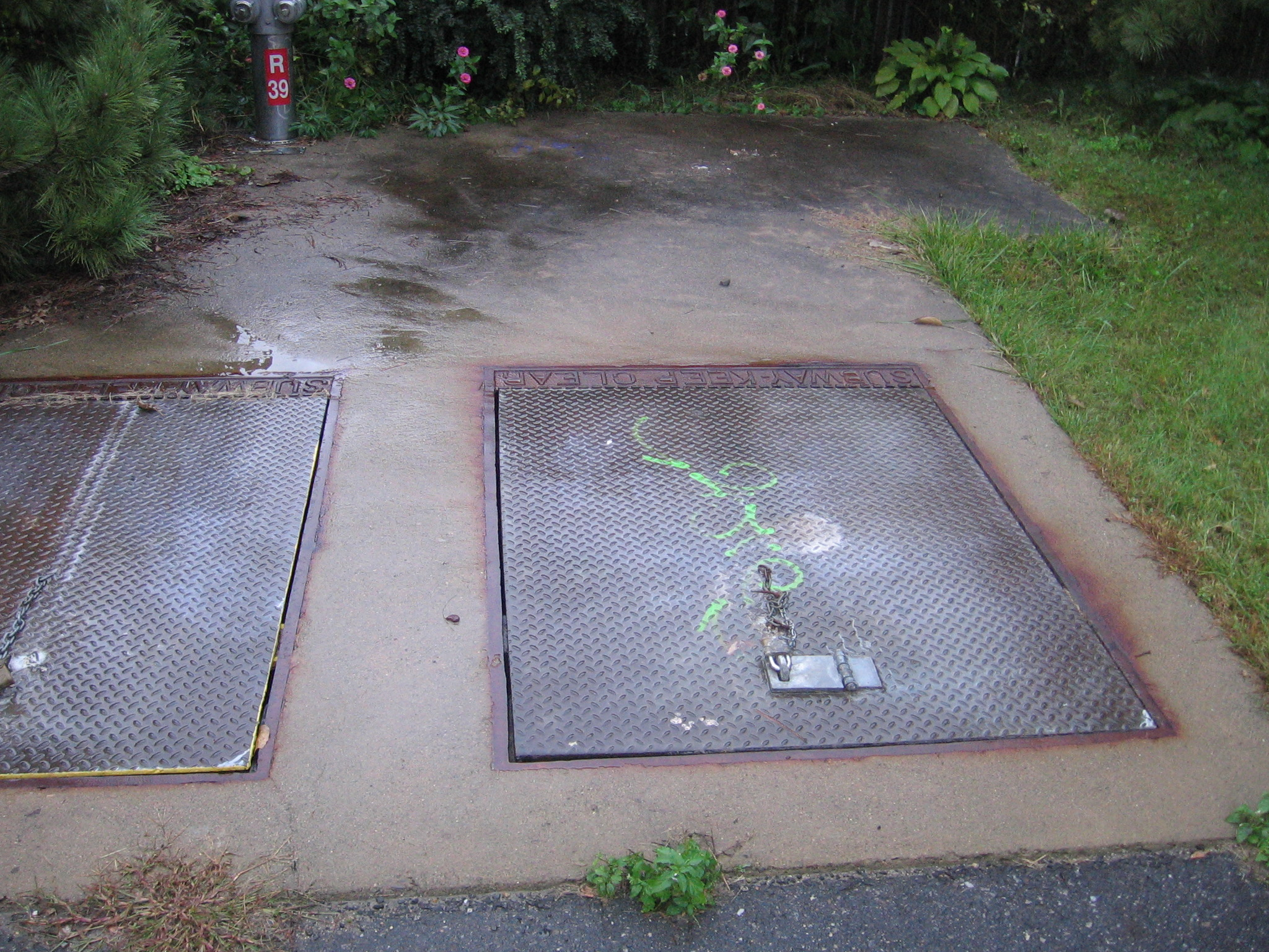 A quarter-mile north of Alewife, a pair of hatches poke out of a concrete pad just off the Minuteman bikeway. The "SUBWAY: KEEP CLEAR" inscriptions reveal their purpose: escape hatches from the Red Line storage tracks west of Alewife station, part of the once-planned extension to Arlington